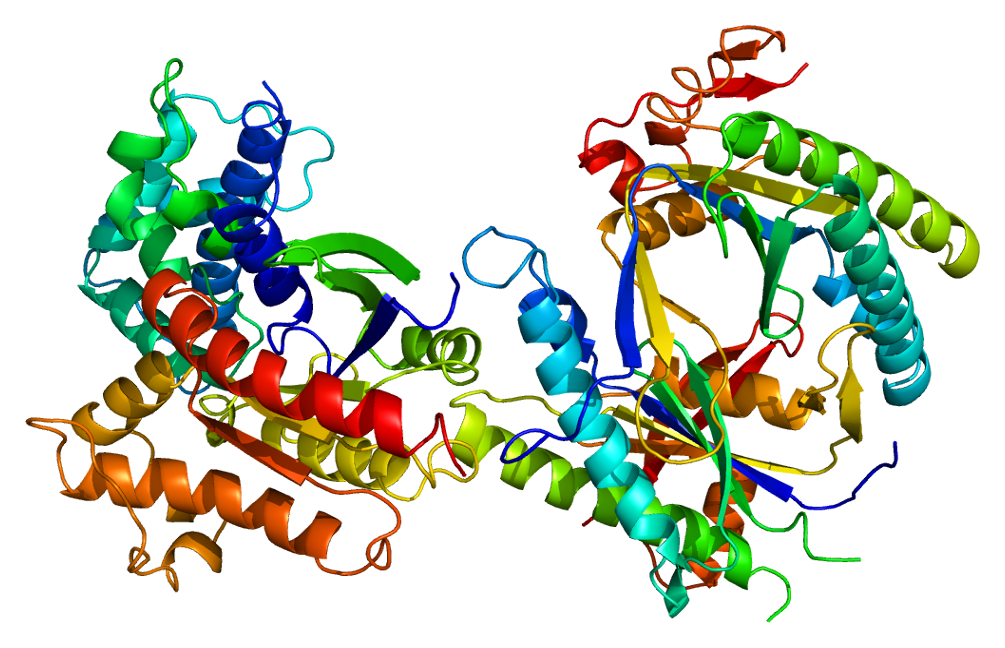 Structure of the GNAS protein (left) in complex with ADCY2 and ADCY5. Based on PyMOL rendering of PDB 1azs.